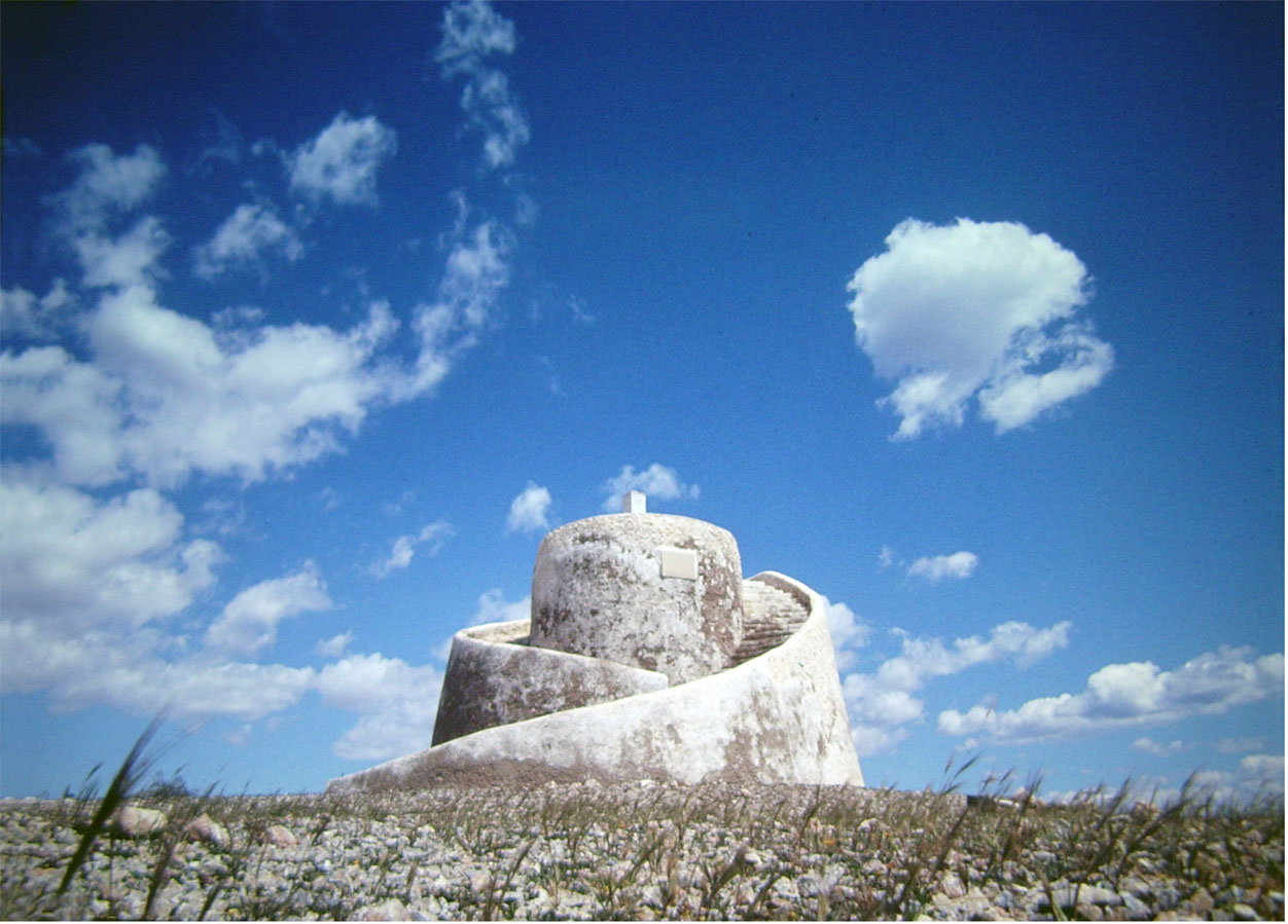 View of Cap Cerver Tower in Torrevieja at 1980.